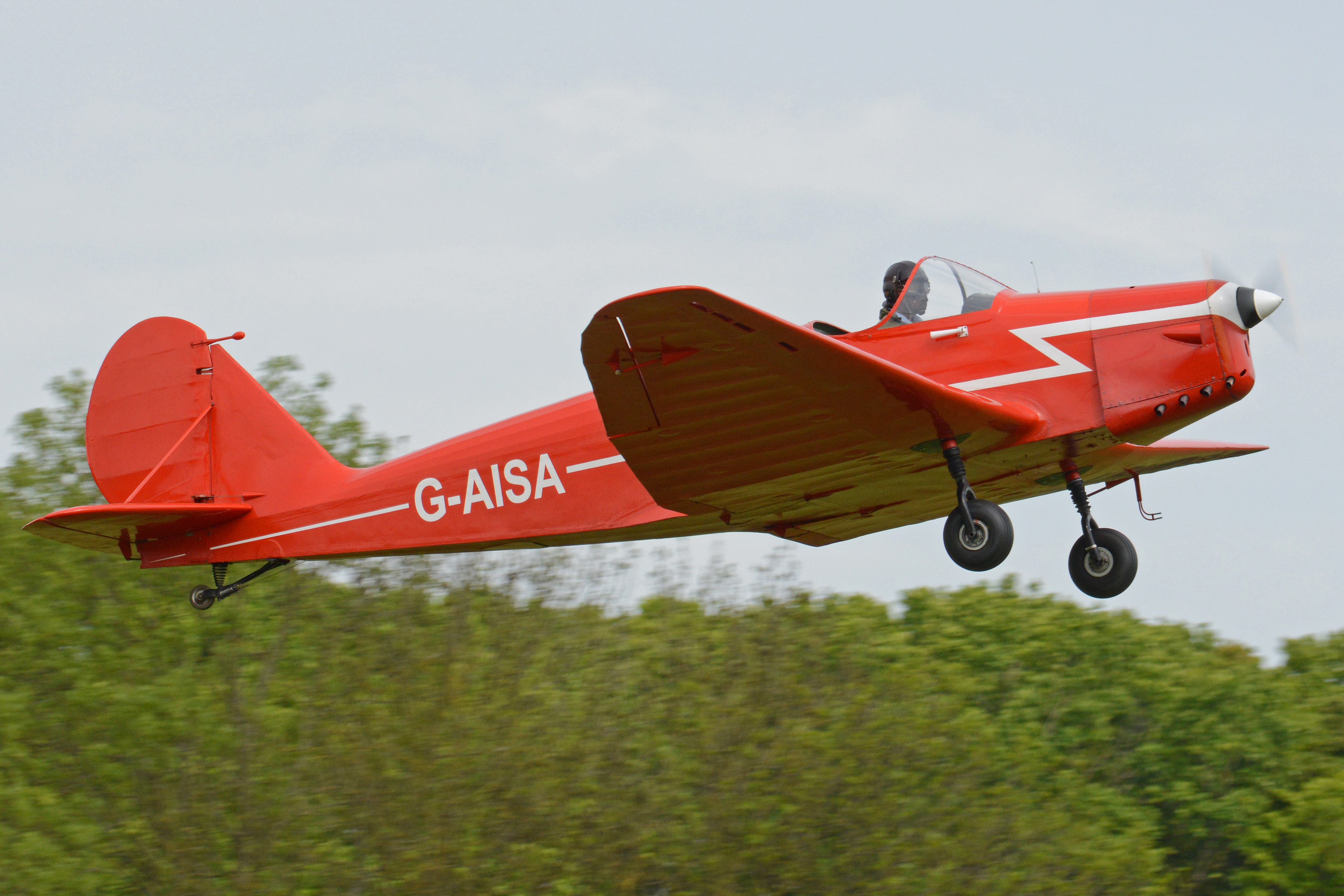 c/n 17. Built 1947. Seen during the Chipmunk 70th Anniversary event. Old Warden, Bedfordshire, UK. 22nd May 2016.